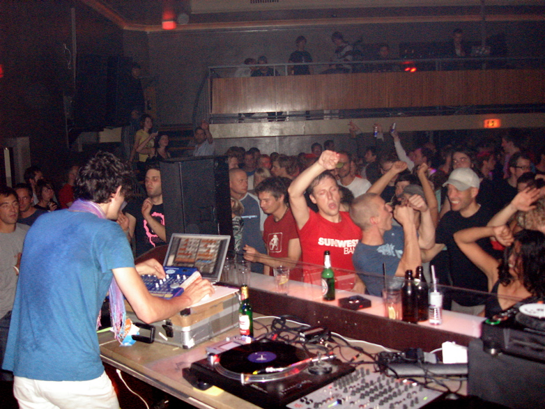 Apparat live at Munich's techno club Registratur.